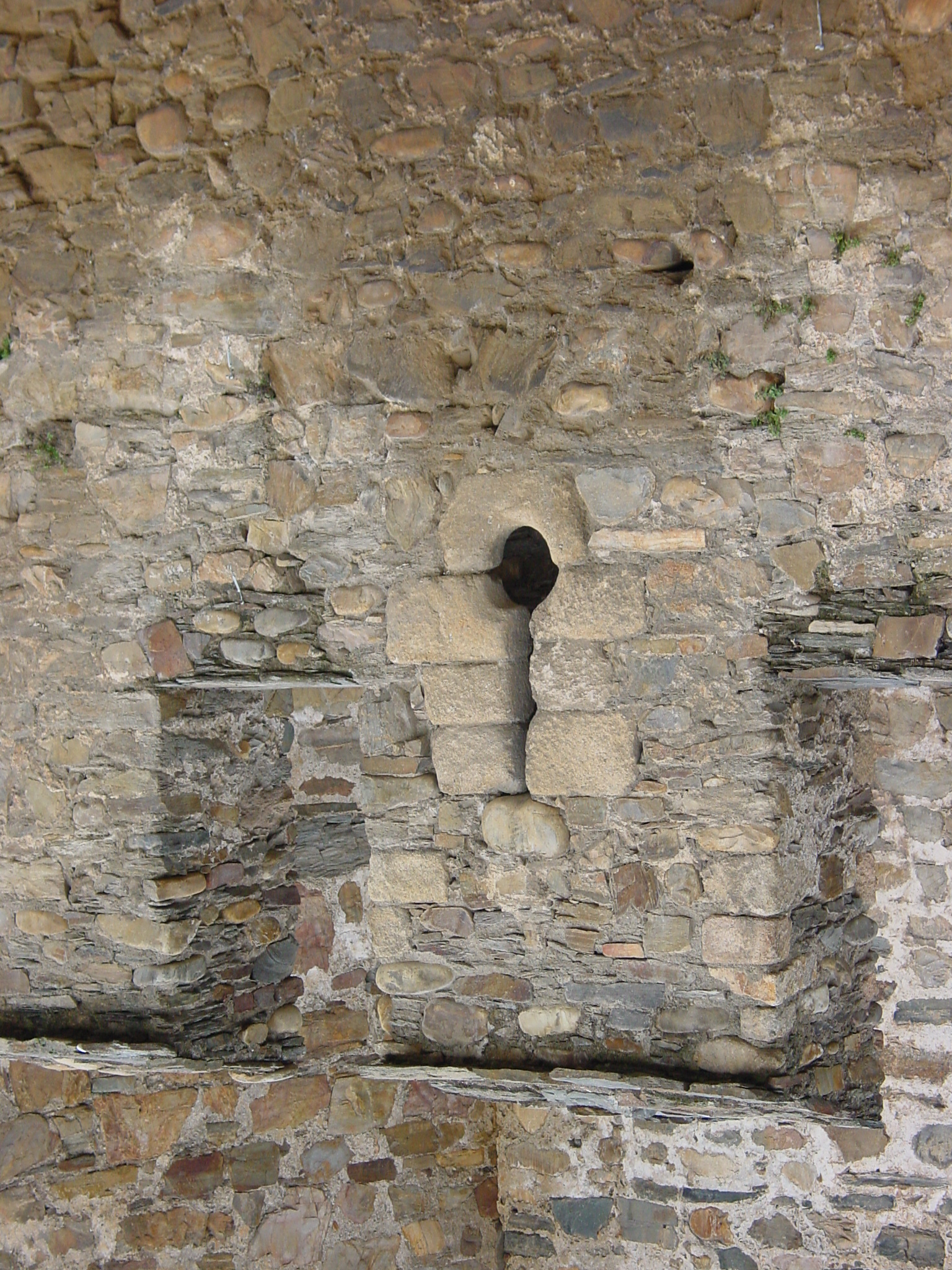 Detail of the Knights Templar castle in Ponferrada (León). Example of a stone wall.